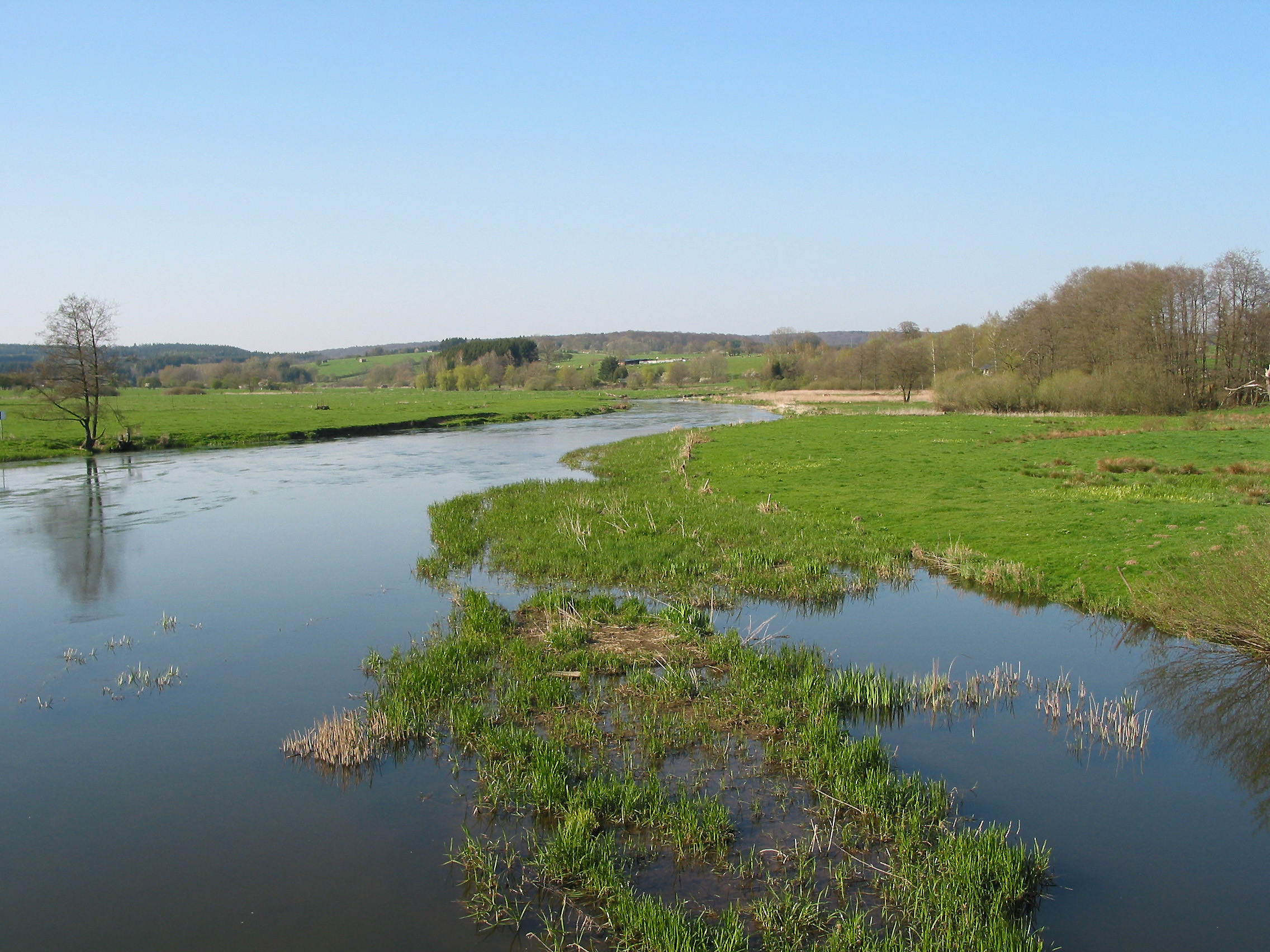 Chassepierre, the village and the Semois river.